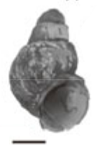 Black-ang white photo of an apertural view of the shell of Margarya francheti (IOZ-FG89664), Lake Dianchi. Scale bar is 1 cm.